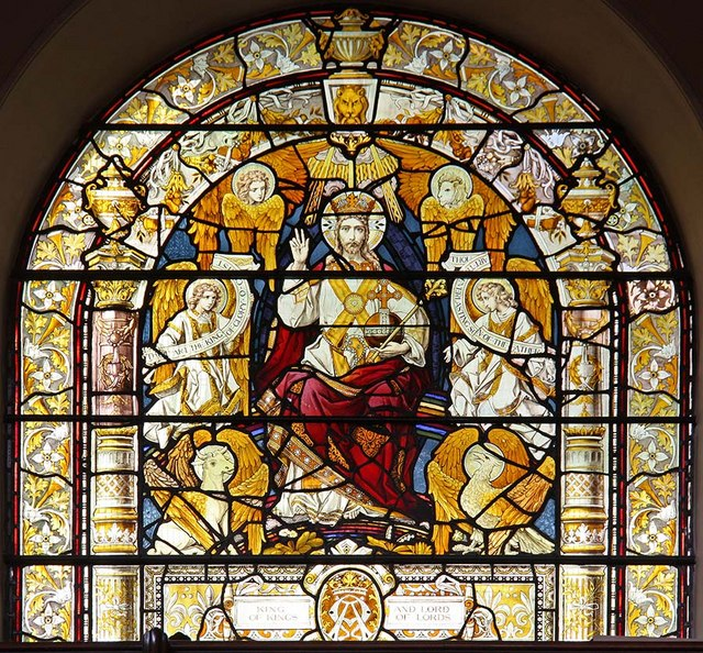 St Botolph without Aldersgate, London EC1 - Window, near to London, City of London, Great Britain. Depicting Christus Rex